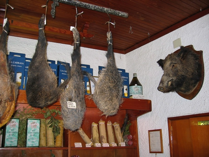 Wild boar products, Umbria, Italy.